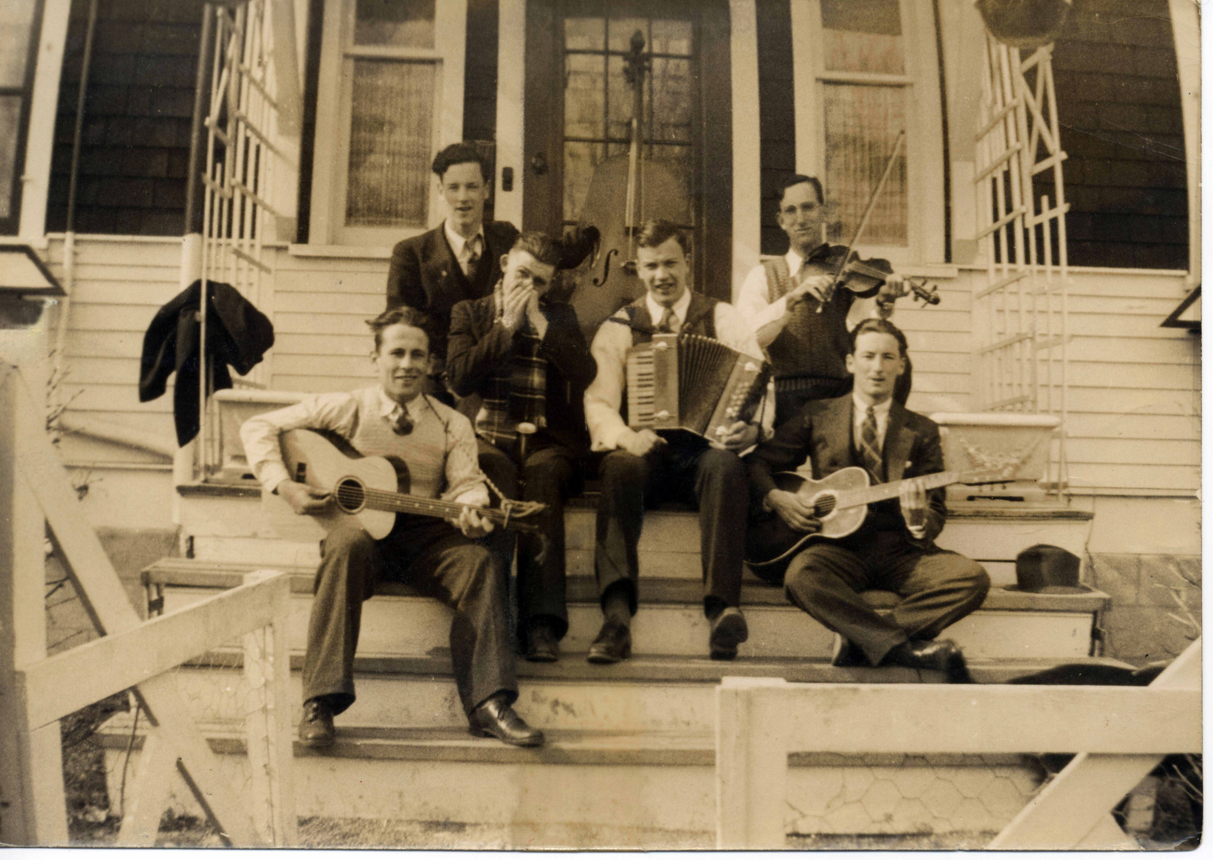 1937 B&W photograph of Donn Reynolds as "The Yodeling Ranger" (top left) with his band in Winnipeg, Manitoba, Canada.